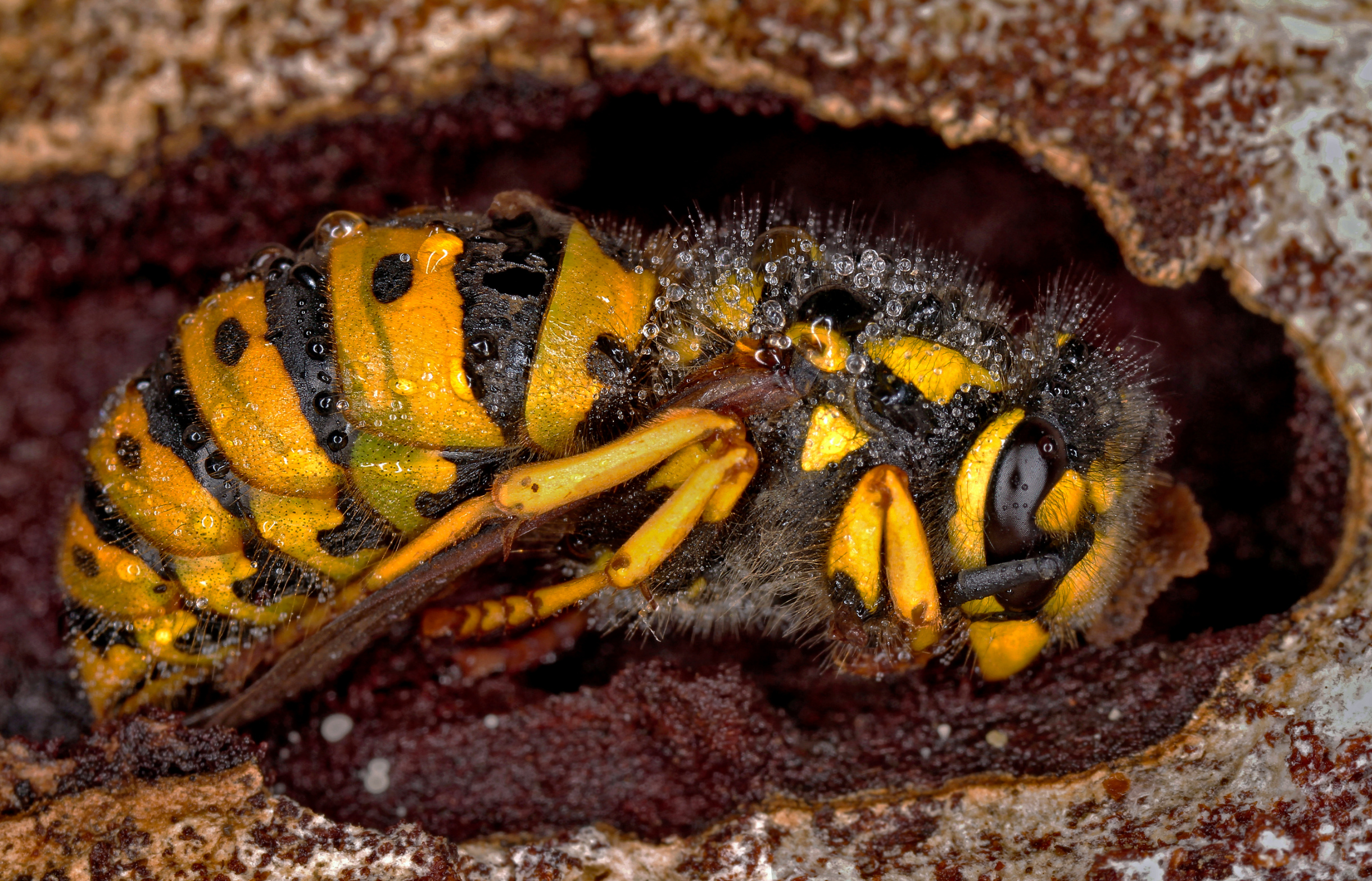 Macrophotography of Vespula germanica, Queen in hibernation, awaits spring to awaken and establish a new insect colony.